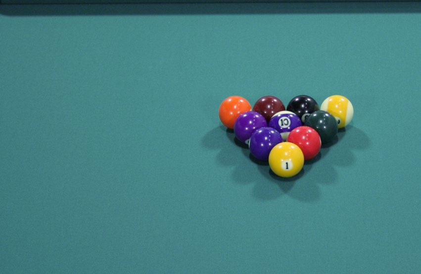 billiard